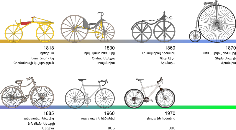 Bicycle stages of development